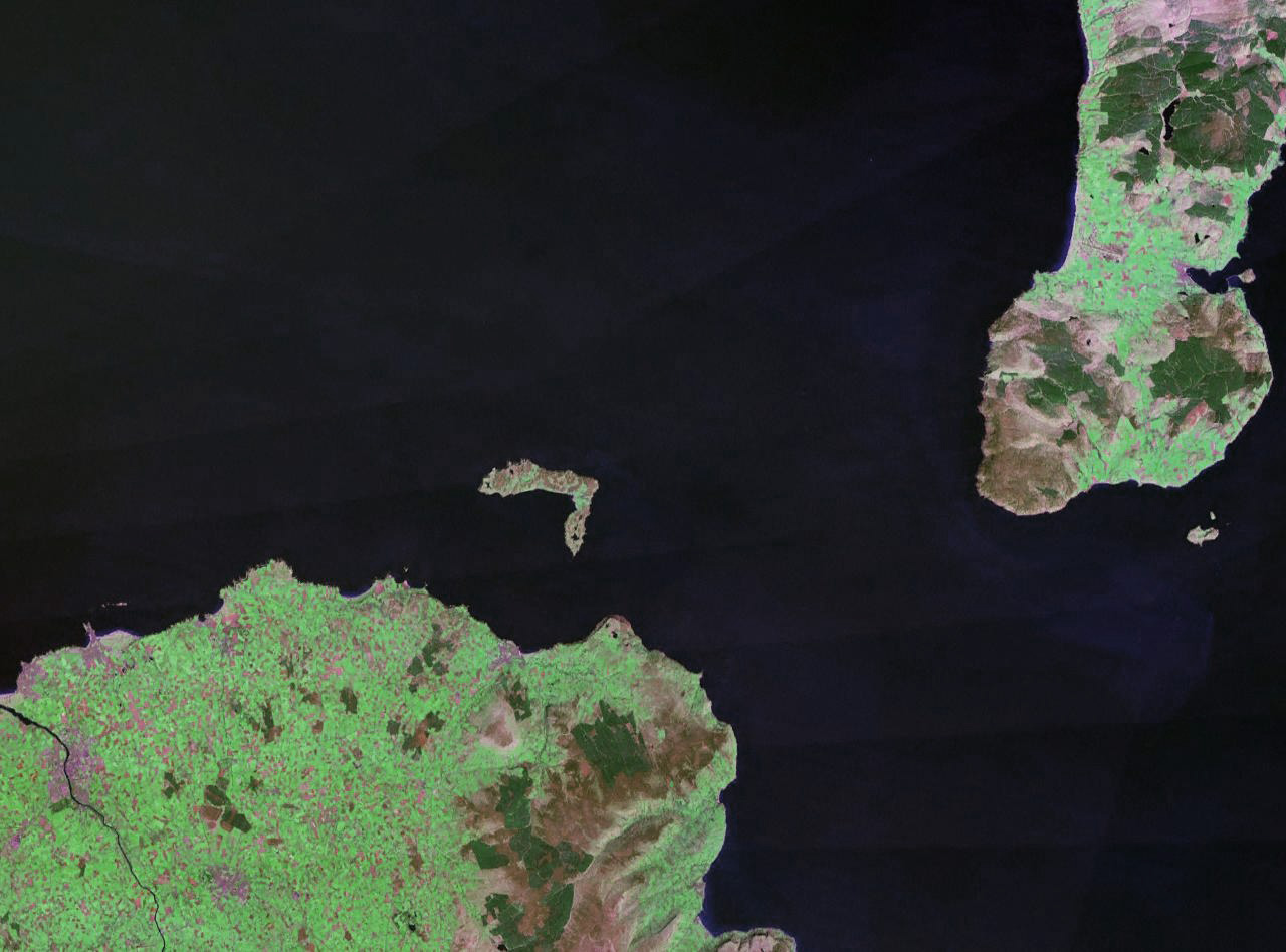 Rathlin Island in Northern Ireland. The coast of County Antrim is to the south, and the tip of the Kintyre Peninsula is to the east.